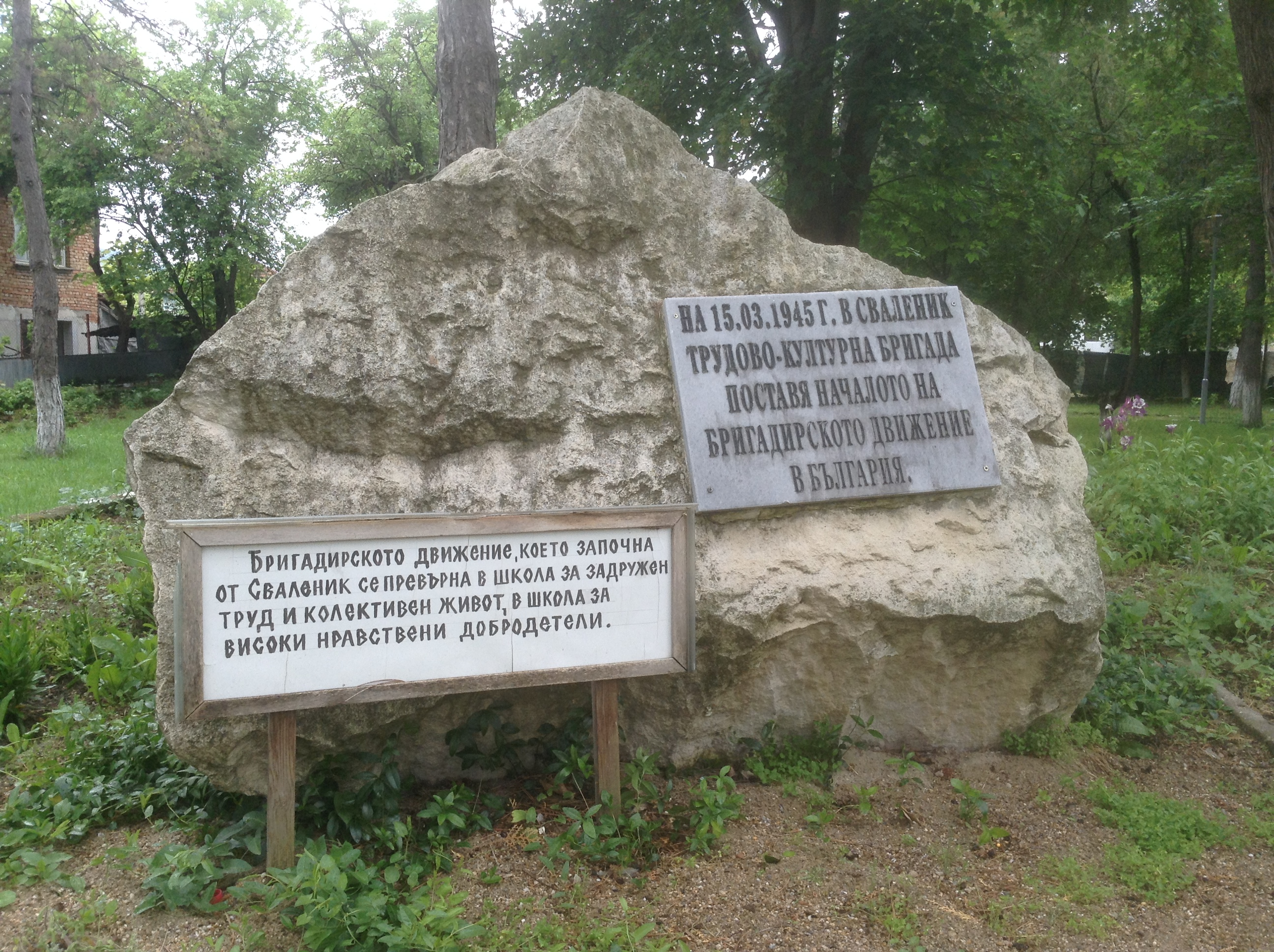 Foremen's memorial in village of Svalenik, Bulgaria.